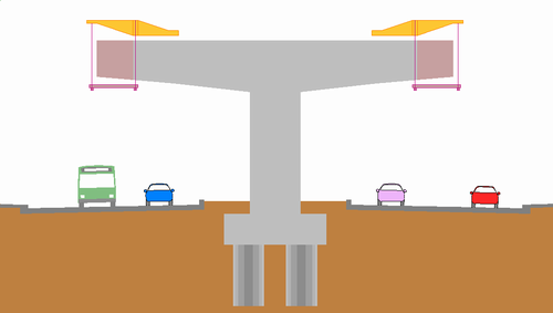 Cantilever erection above roads